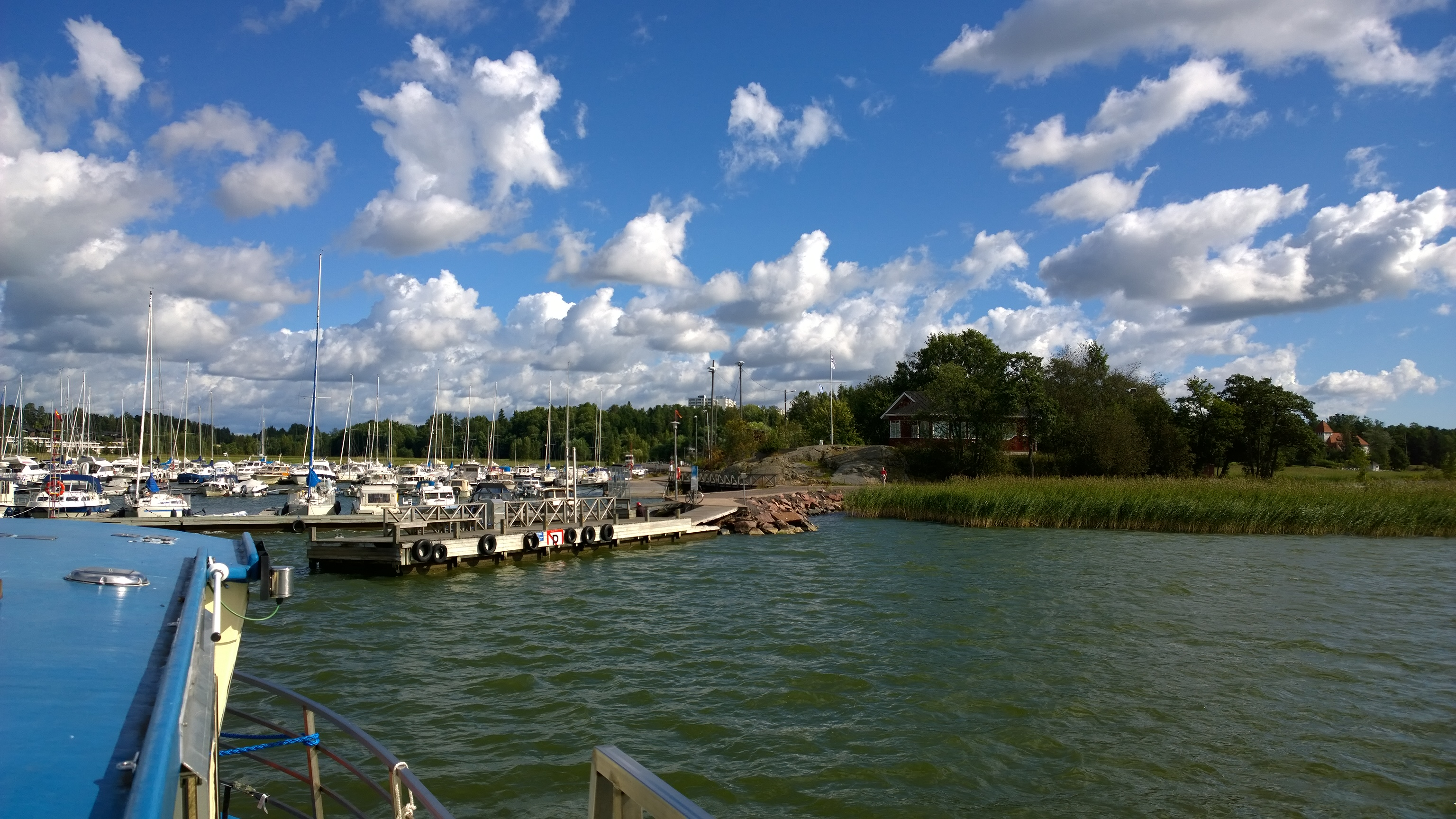 Communal boatline coming in at Soukka Pier on Klobben, Espoonlahti.